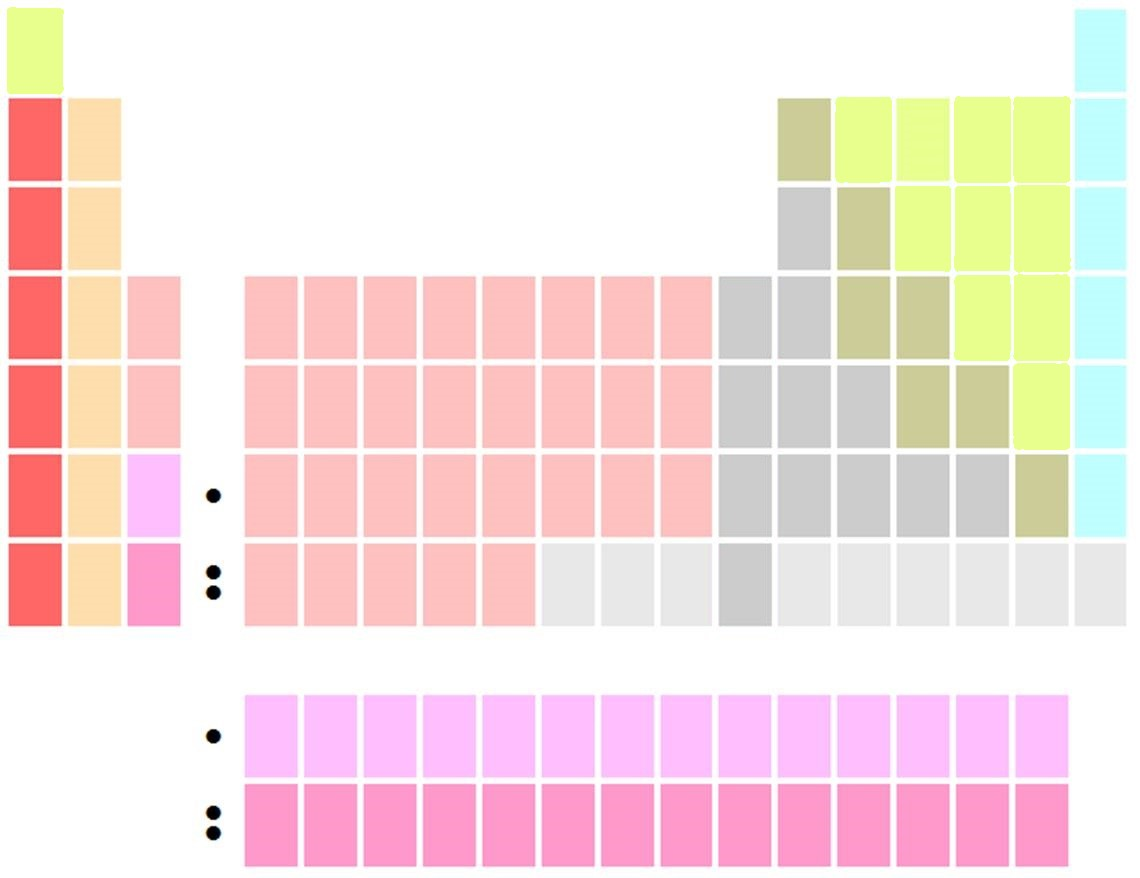 Periodic table with group 3 being defined as Sc-Y-La-Ac. Color scheme for categories following enwiki as of today.